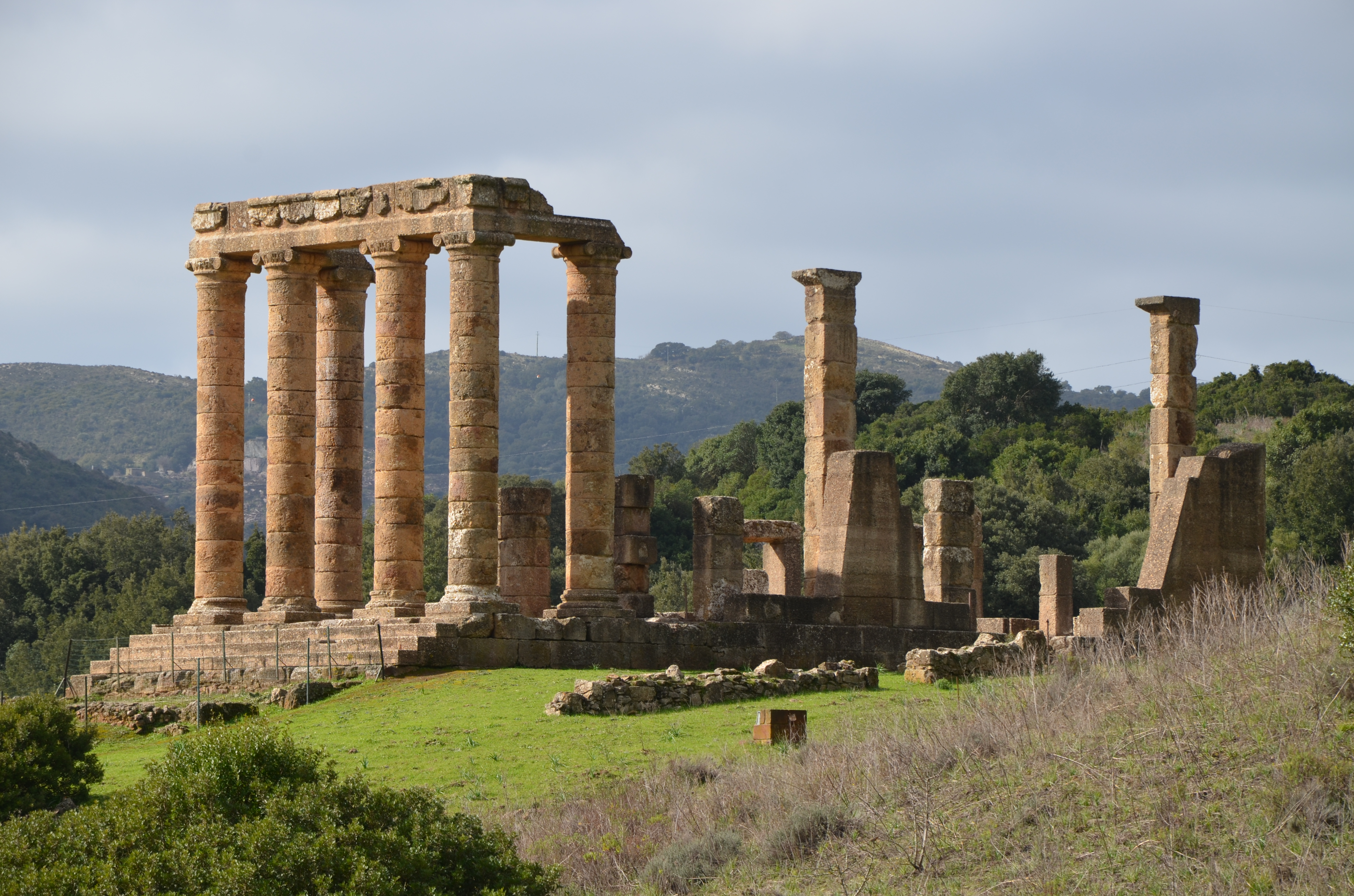 Temple of Antas, a Punic-Roman temple, first built around 500 BC, and restored around 300 BC, the Roman temple was built under Augustus and restored under Caracalla, Sardinia